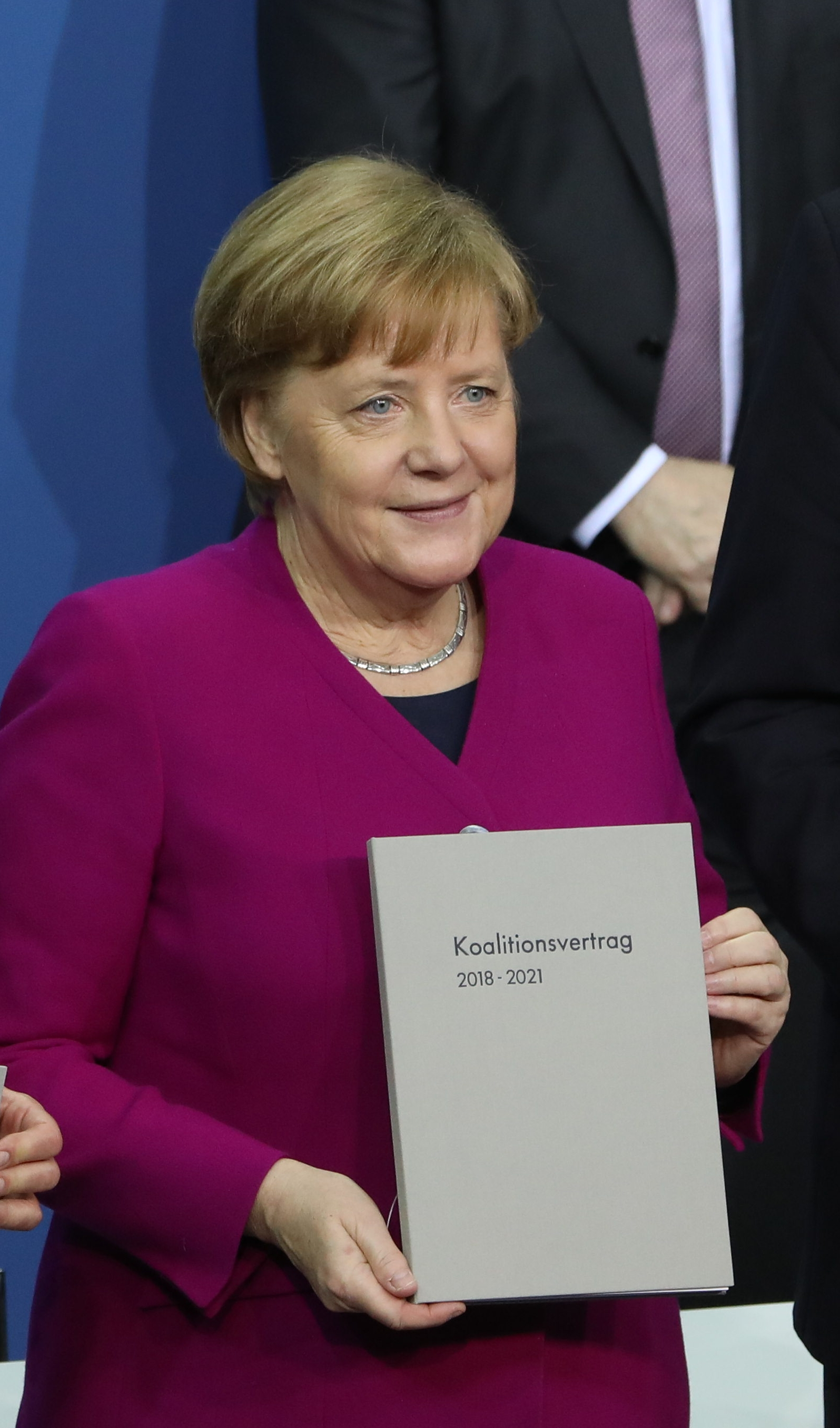 Signing of the coalition agreement for the 19th election period of the Bundestag: Angela Merkel